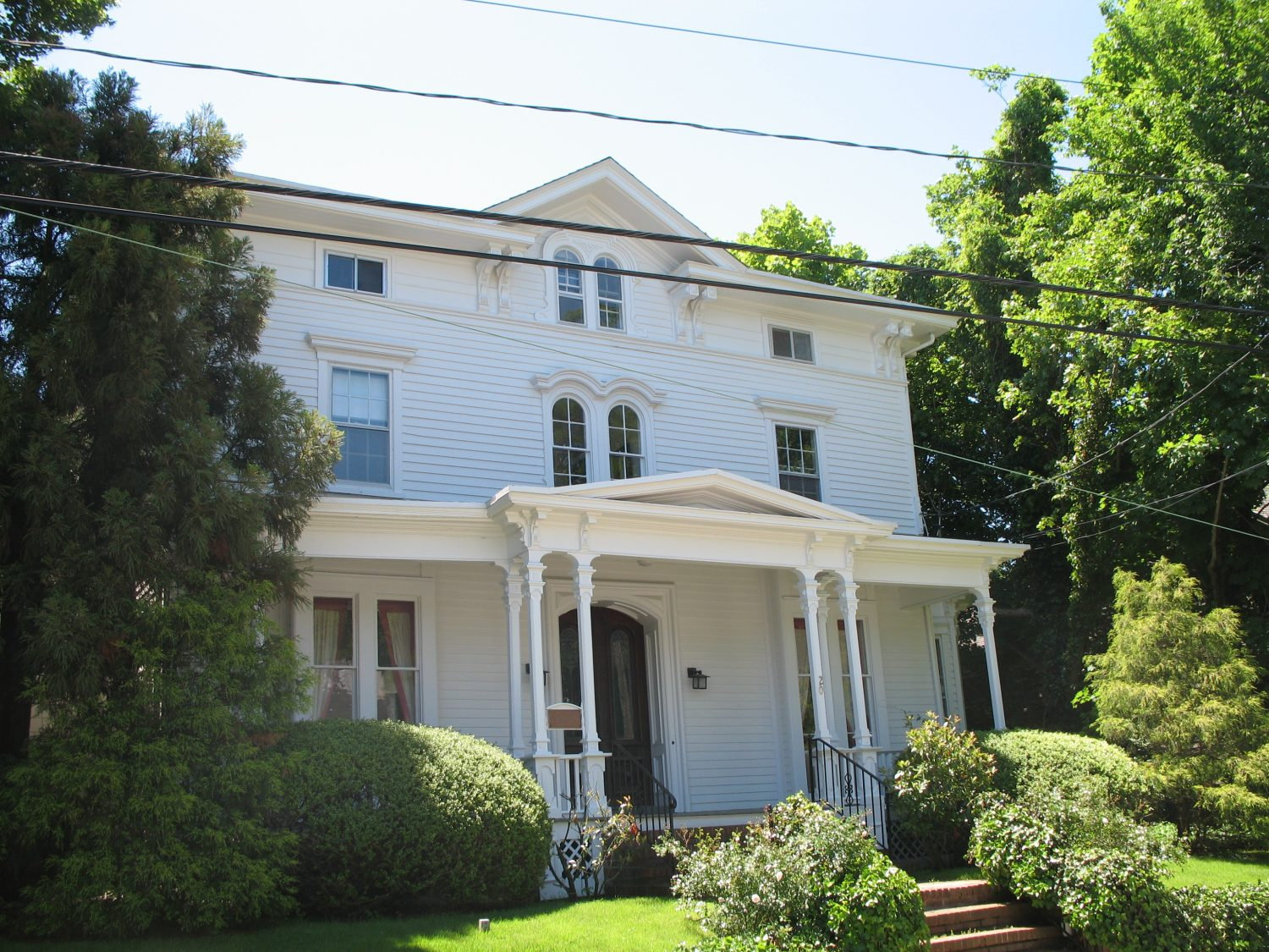 Summer home of Chester Arthur in Sag Harbor, New York. Photo by poster in June 2007.